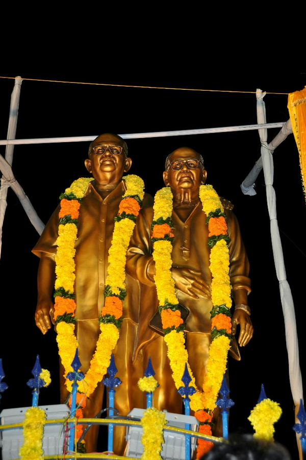 Statue of Sri babpu garu and Ramana garu.